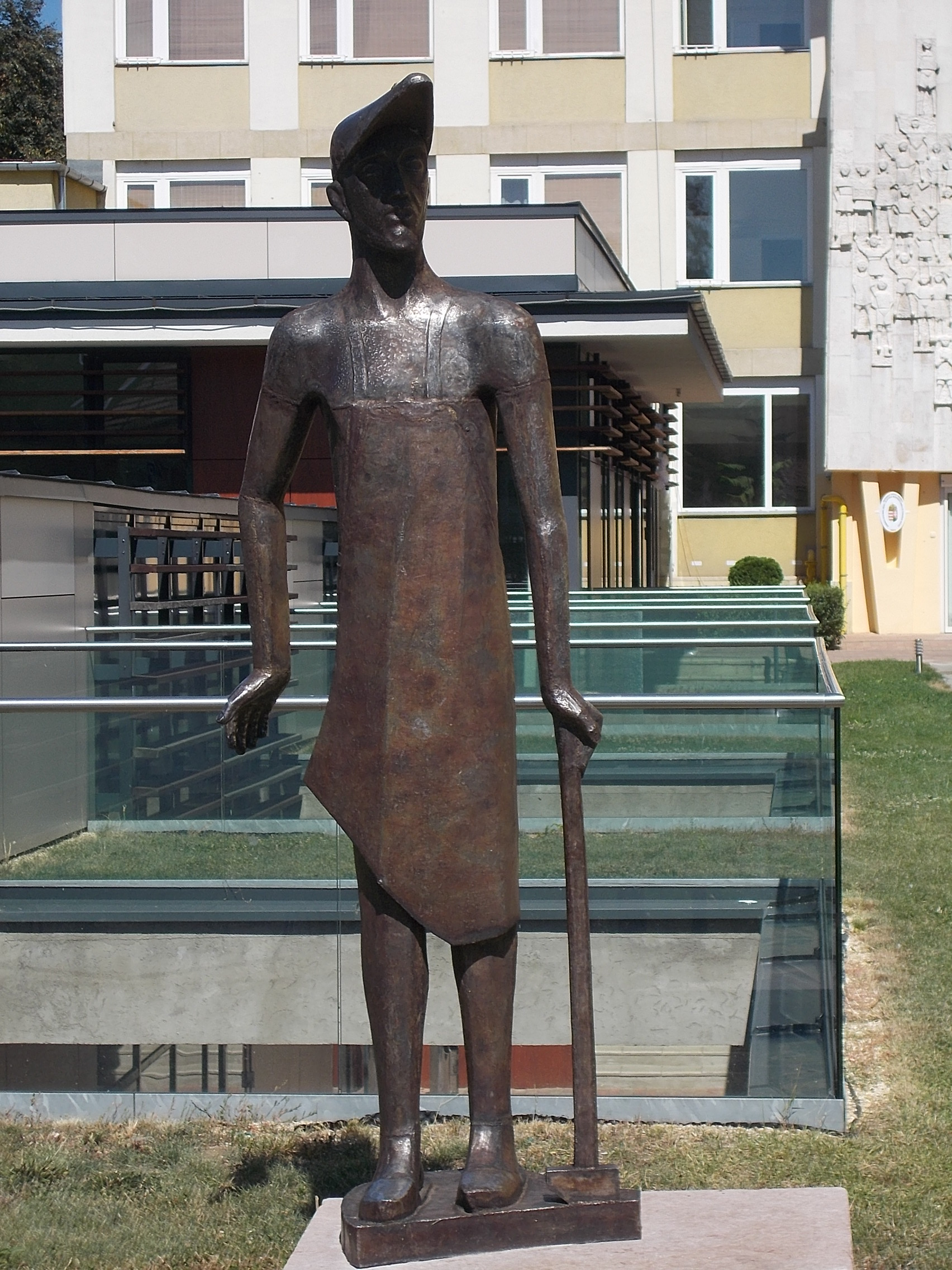 Statue of Henrik Fazola by Ferenc Laborcz (1965) at Elementary School named after Albert Szentgyörgyi. - 8 Bartók Square, Eger, Heves County, Hungary.